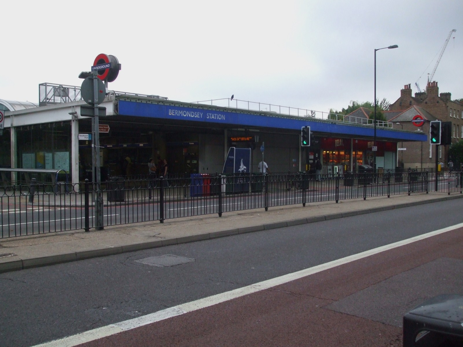 Bermondsey tube station